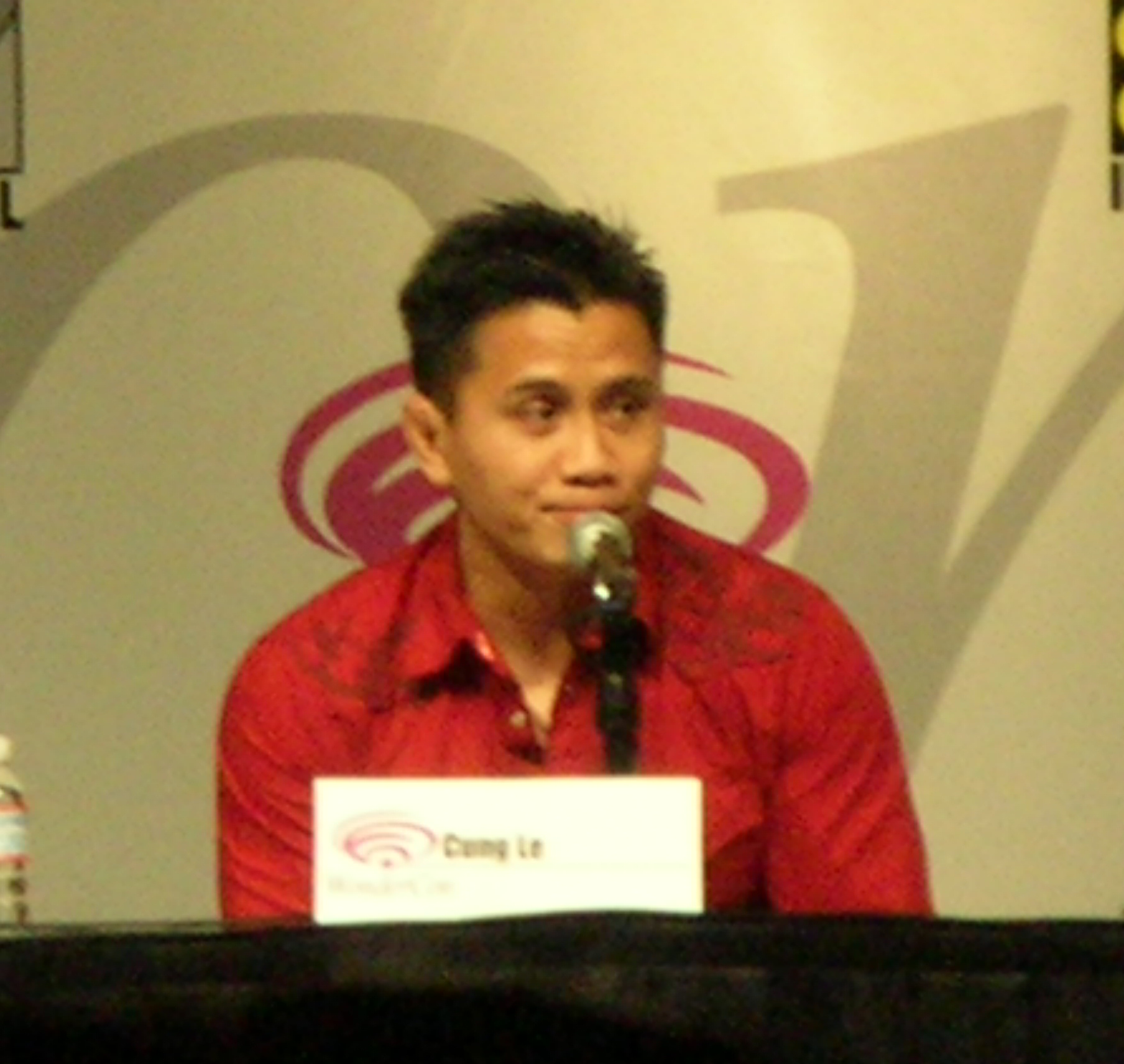 Cung Le at a Pandorum panel discussion at WonderCon 2009.